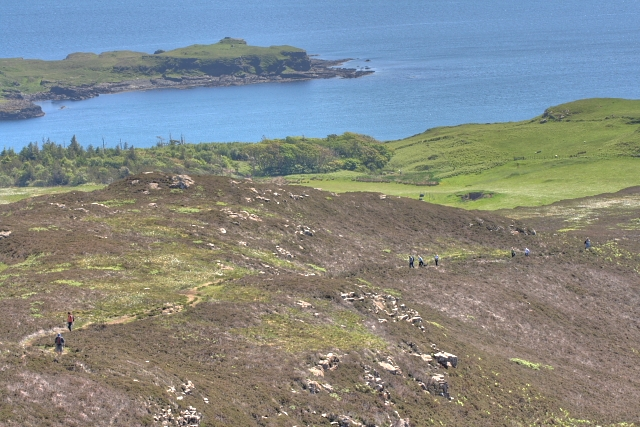 Path to An Sgurr The southern tip of Eilean Chathastail in the distance.